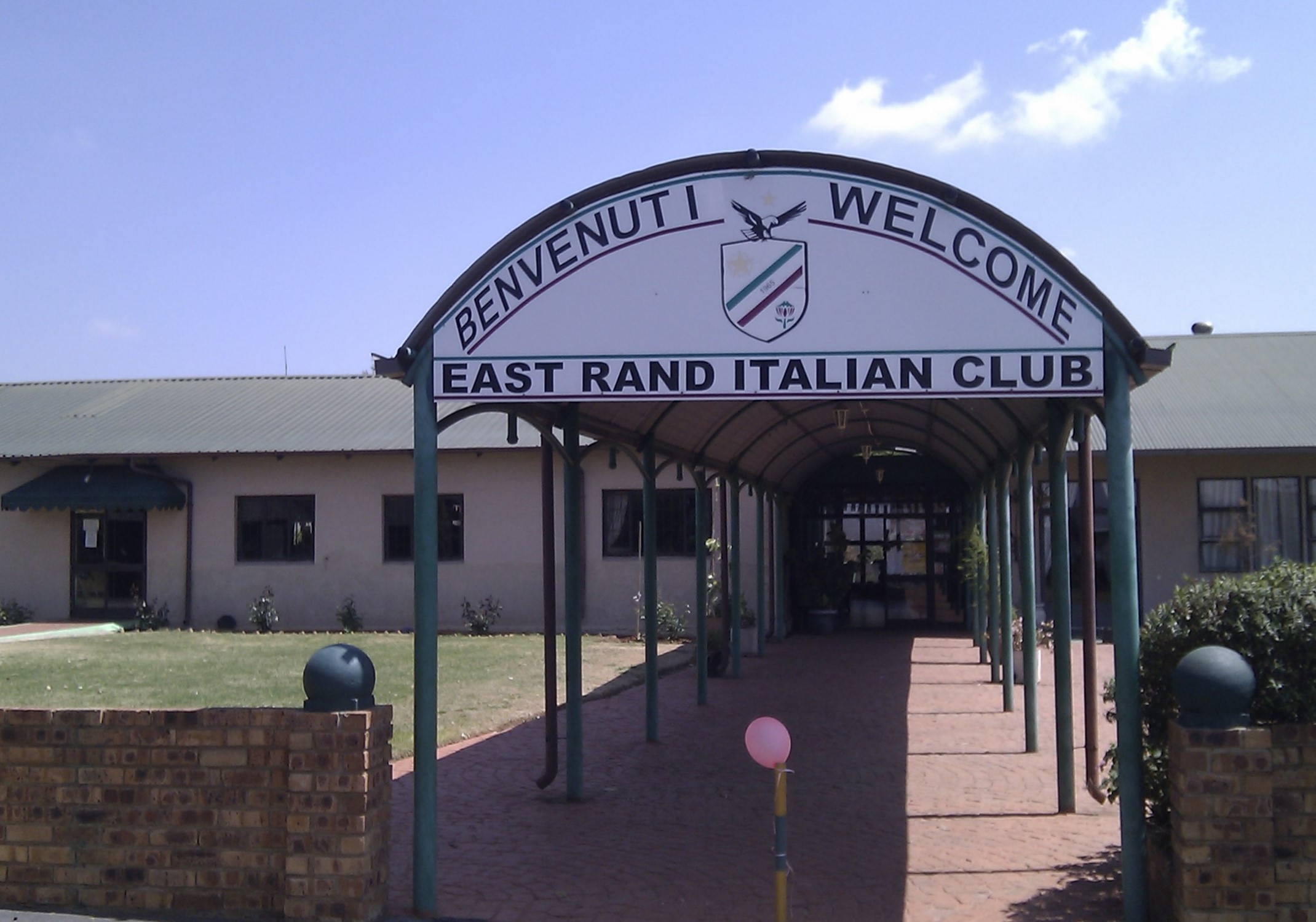 Entrance to the East Rand Italian Club in Boksburg, Gauteng, South Africa